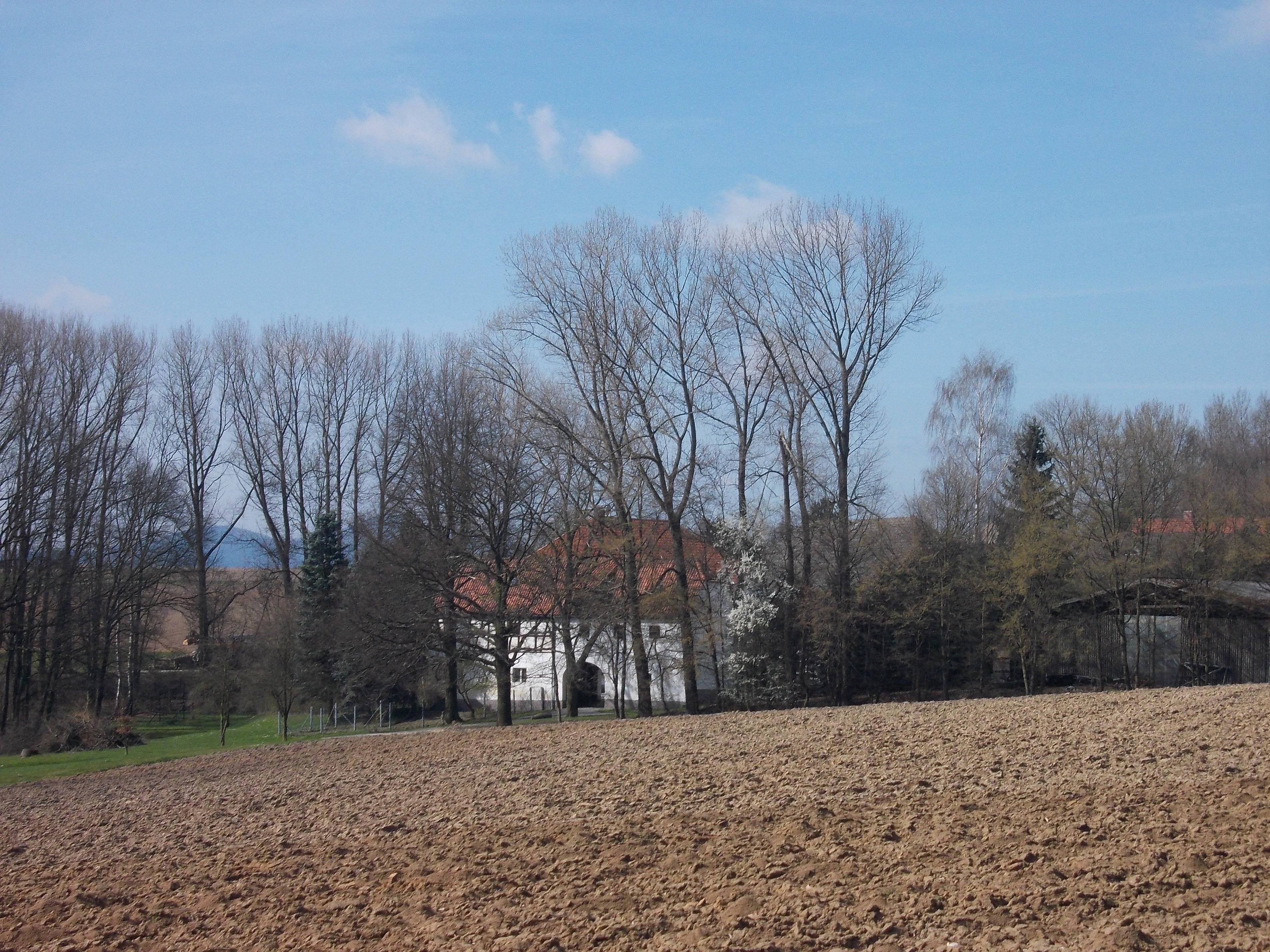 Lower Hasenberg Estate on the northern outskirts of Zittau (Görlitz district, Saxony)